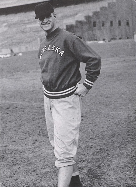 Nebraska Cornhuskers football coach Bernie Masterson